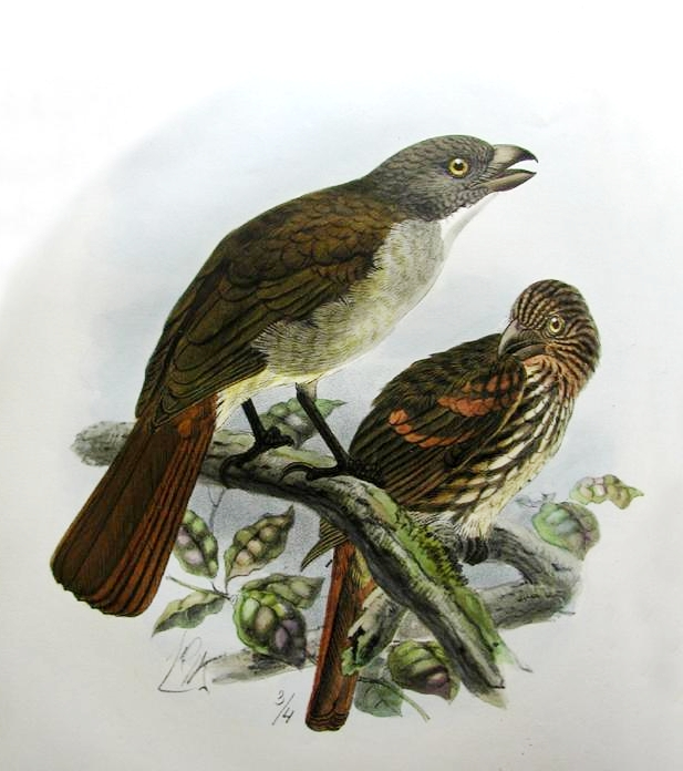 Turnagra Hectori & Turnagra Crassirostris Which are now a synonym of the North Island Piopio (Turnagra tanagra) & South Island Piopio (Turnagra capensis capensis). Hand coloured lithograph from Buller’s Birds of New Zealand, 1st edition, 1873. The lithographic plate is by John Gerard Keulemans.